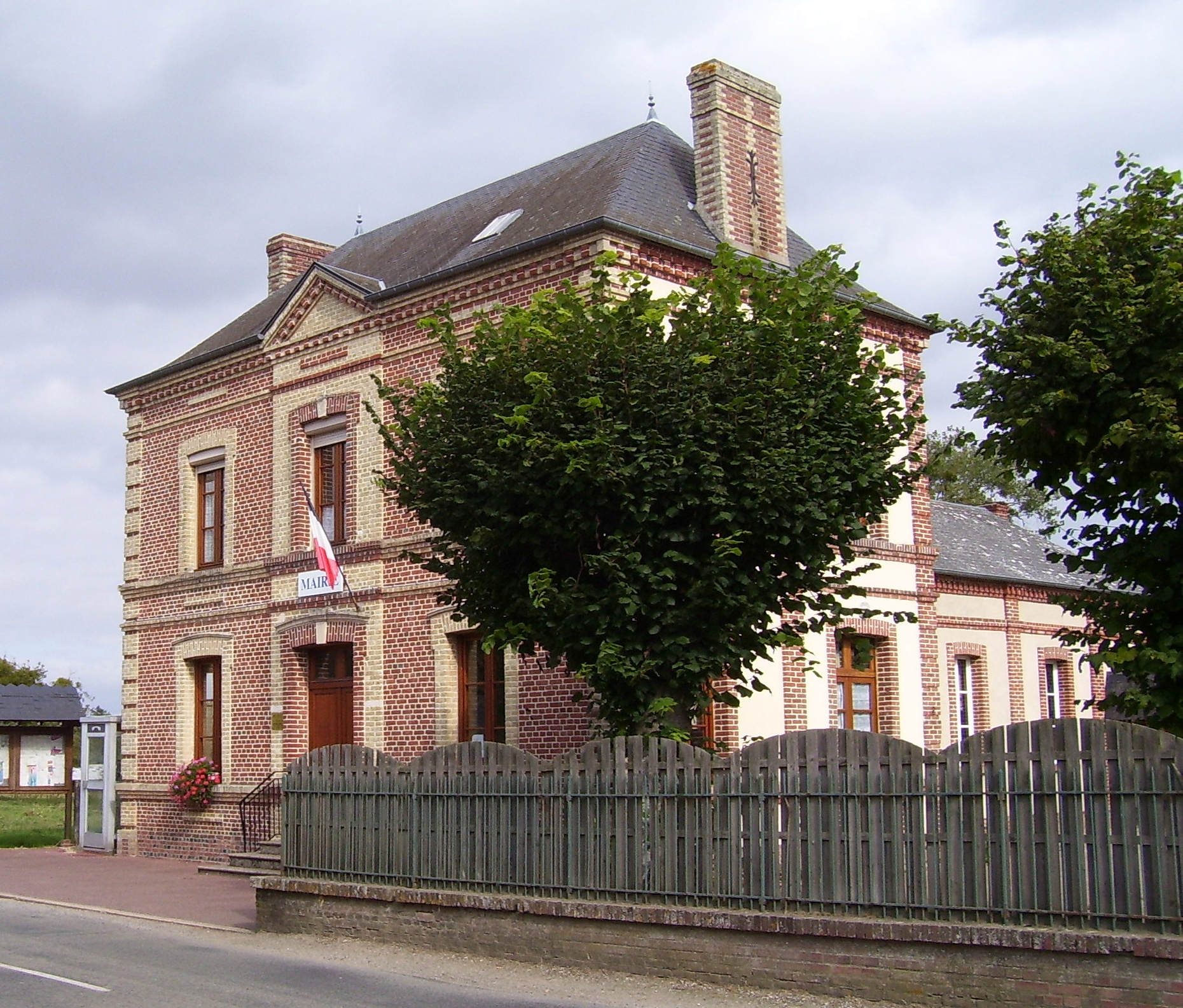 Town hall of Saint-Victor-d'Épine in the departement Eure in the Haute-Normandie in France.